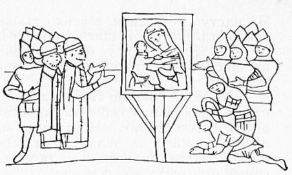 Prayer before the battle